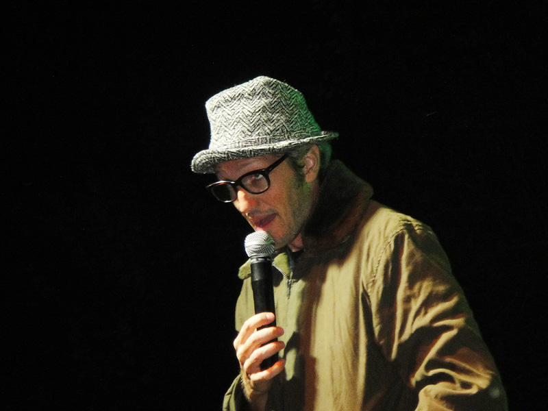 Omar Fantini plays the character of Grandpa Anselmo to the annual Festival ceroanKio of Asti - August 27, 2011